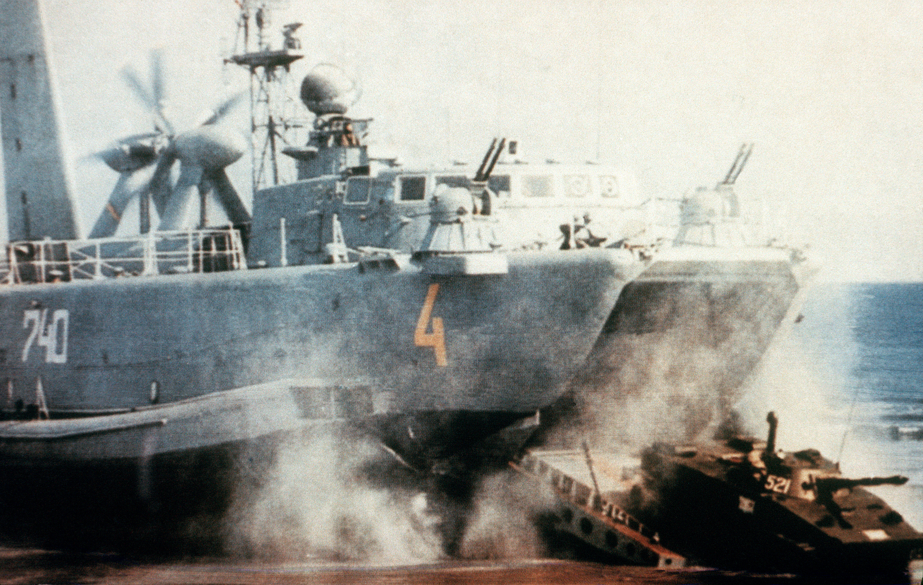 A Soviet PT-76 light amphibious tank moves down the ramp of an Aist-class (NATO-Code) air cushion vehicle. From Soviet Military Power 1985.